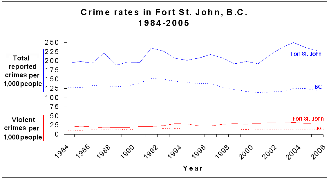 trends in crime 84-05